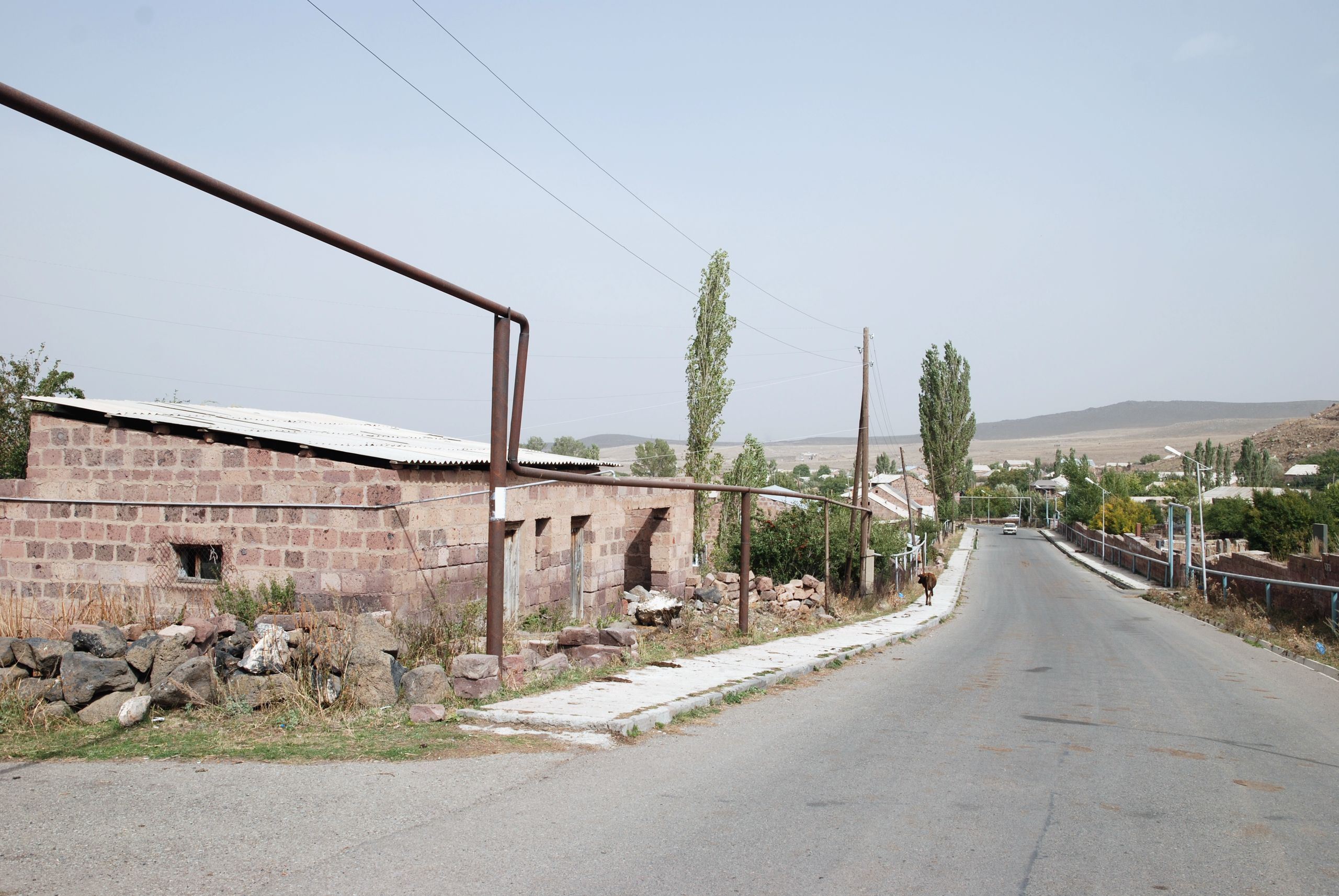 Pemzashen